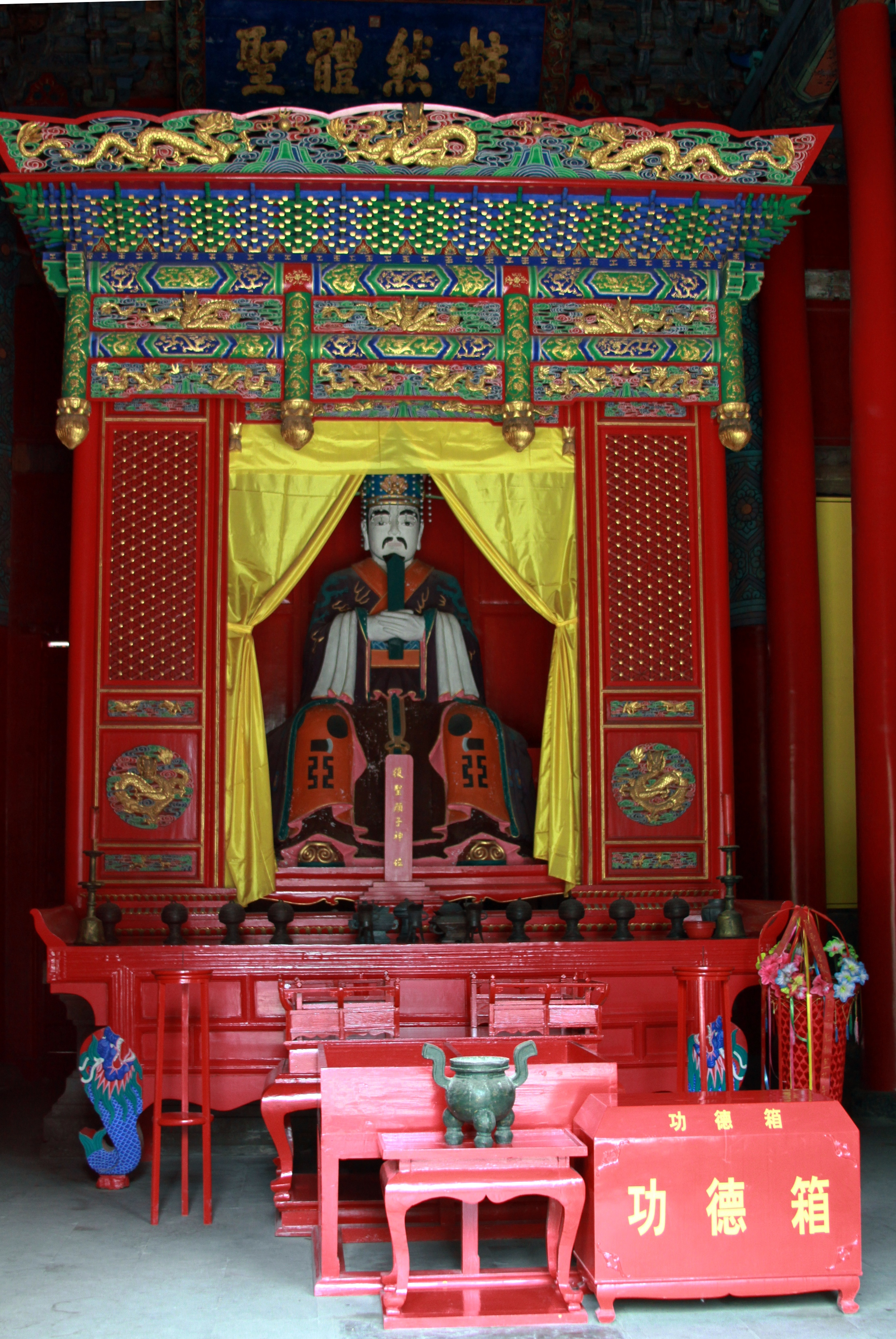 Photograph of the sculpture of Yan Hui in the Temple of Yan, Qufu, Shandong, China.